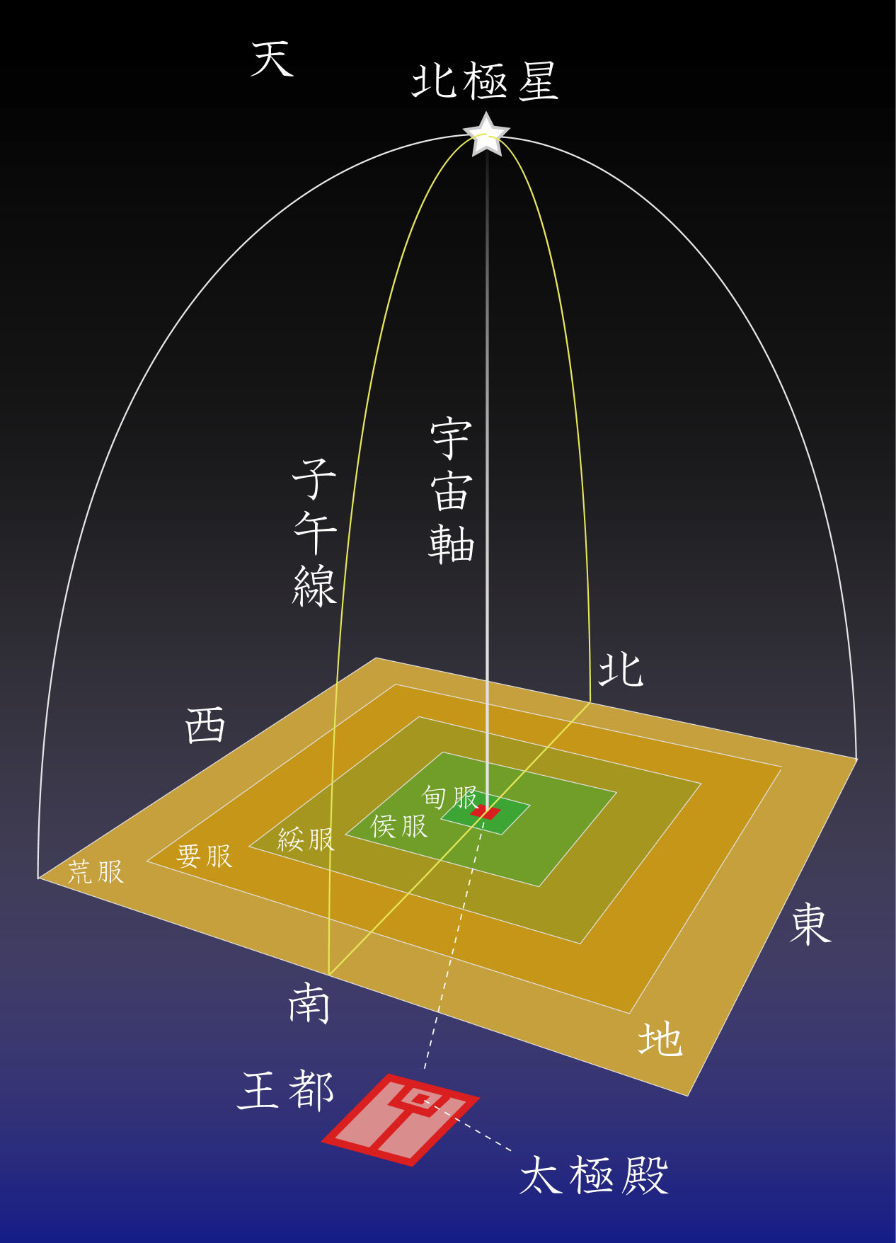 From 3rd to 10th century in China, Taiji hall of the palace was considered to be the center of the world.